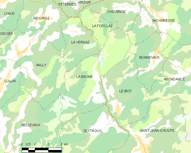 Map of French municipality La Baume